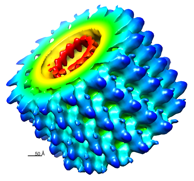 CryoEM reconstruction of the Marburg virus nucleocapsid. EMD-1986